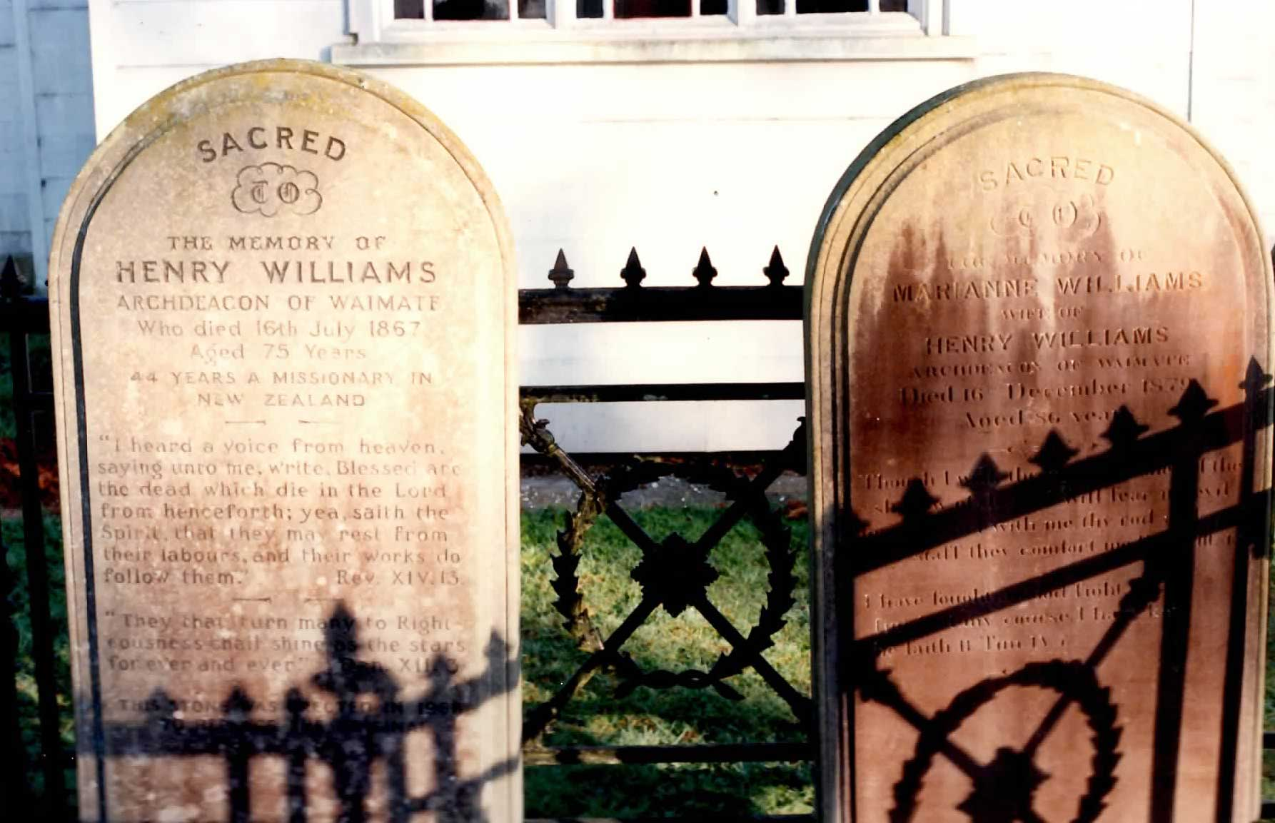 Headstones of Henry Williams and Marianne Williams at Holy Trinity Church Pakaraka New Zealand